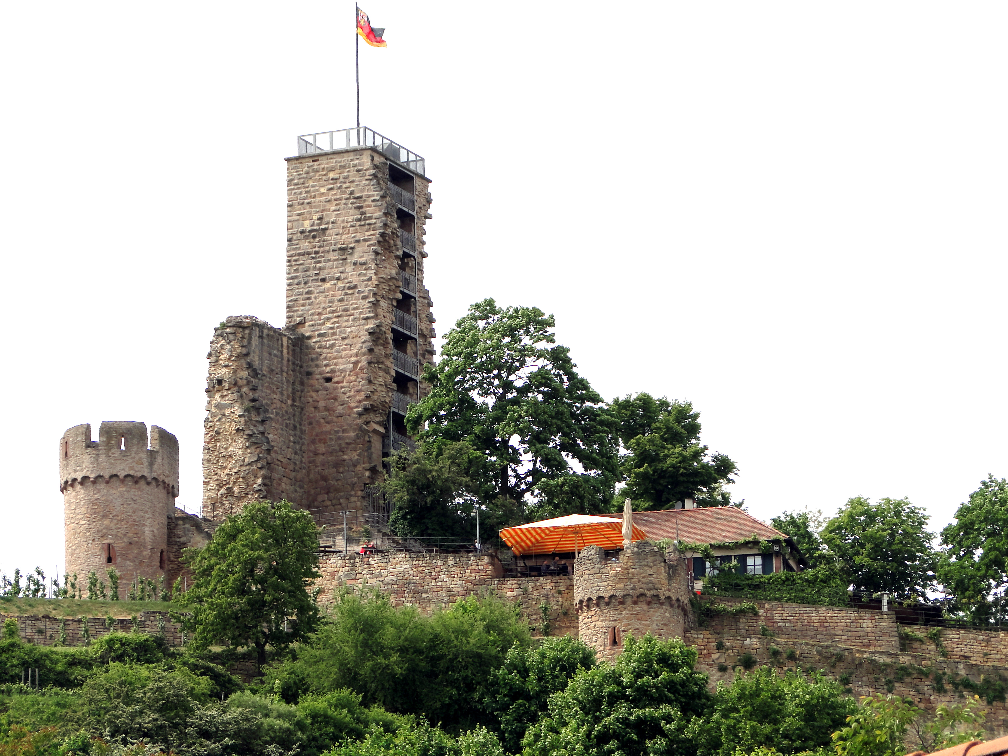 Blick auf die Wachtenburg, Pfalz, von Süden